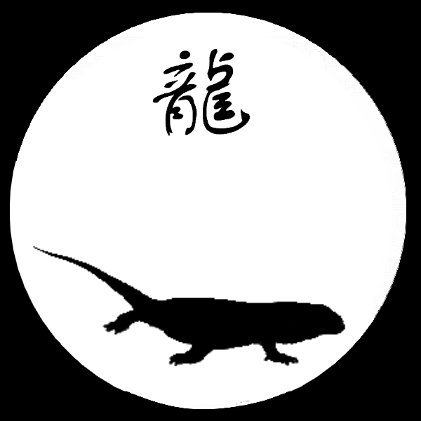 Signe astrologique chinois du Dragon